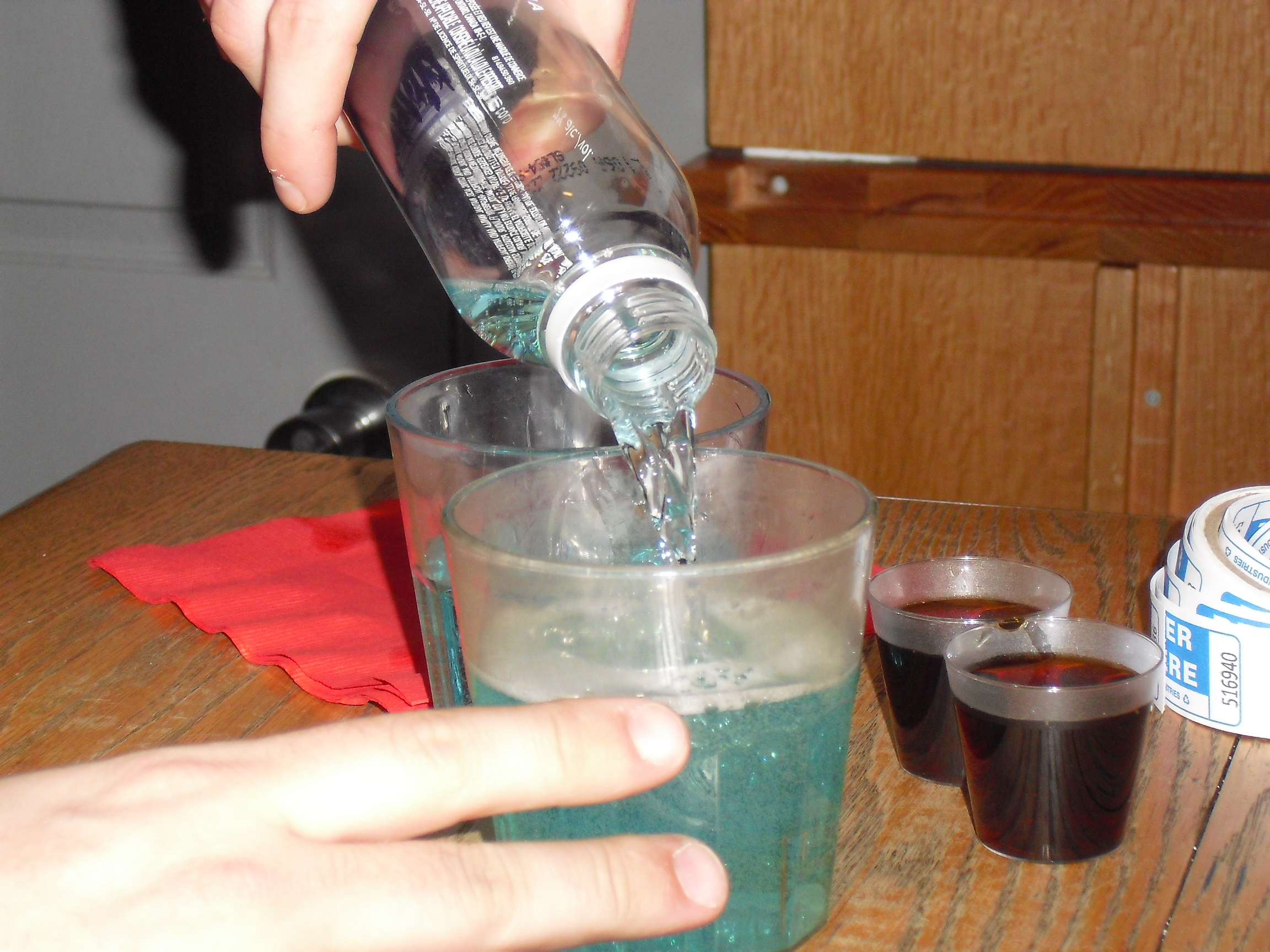 A Rev-Bomb being poured.